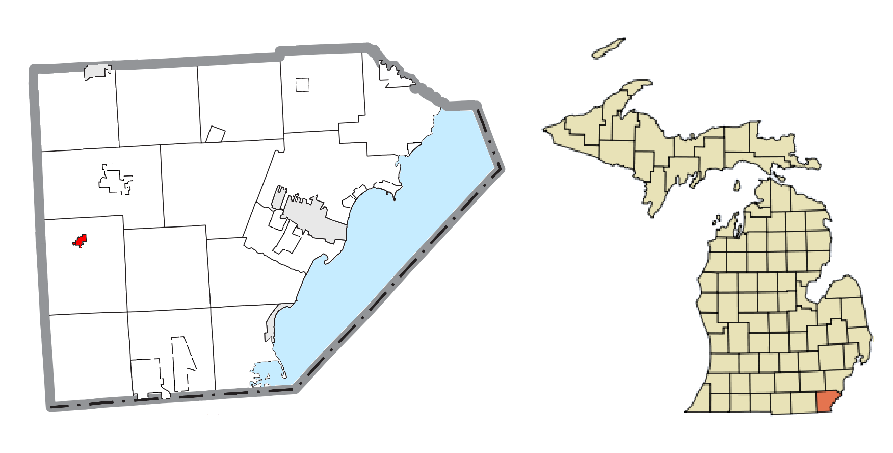 Petersburg, MI